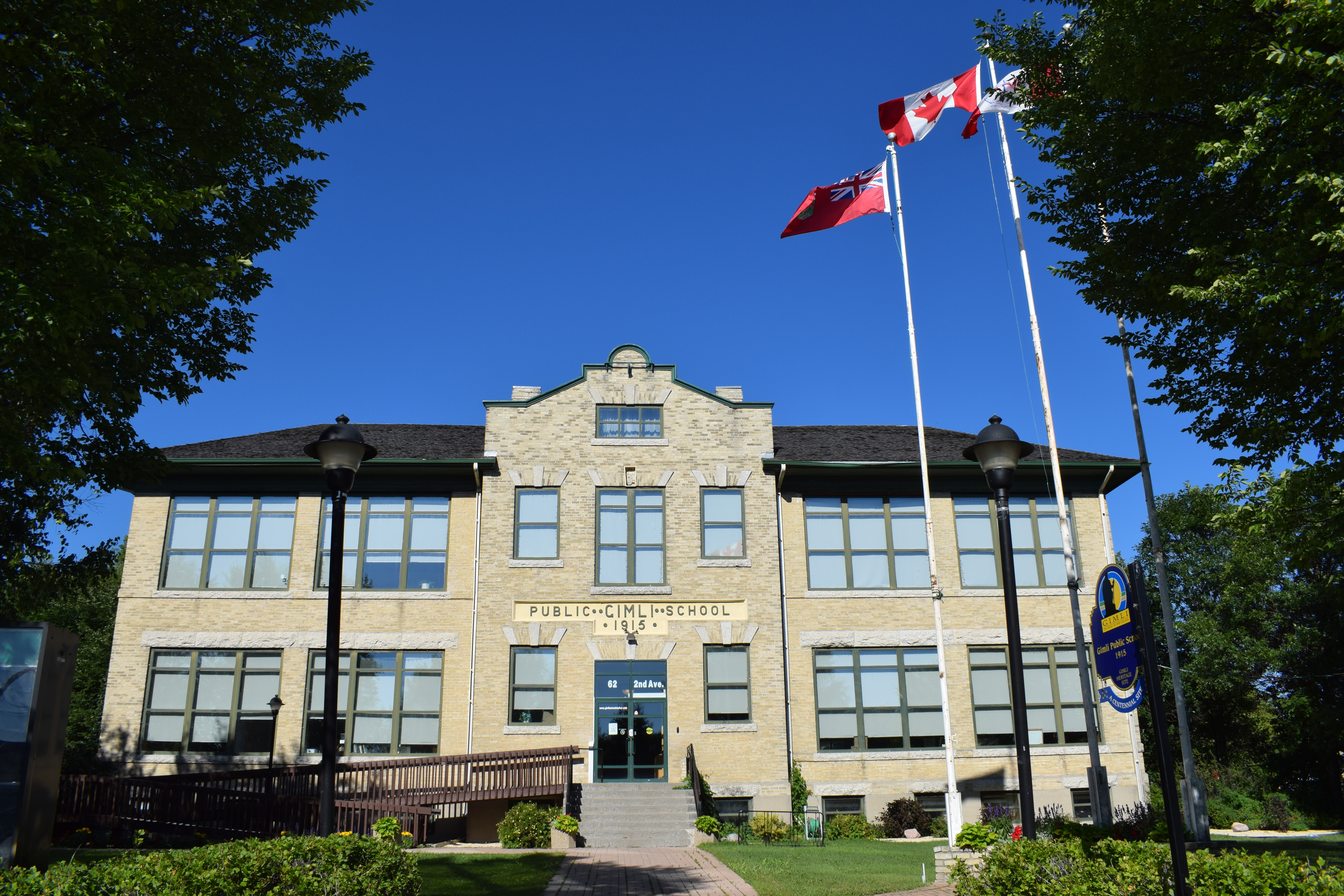 This is the Gimli Public School building constructed in 1915. The building is now home to the Rural Municipality of Gimli as well as other tenants such as the Lake Winnipeg Research Consortium.